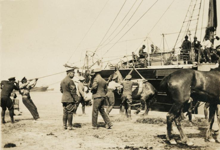 Landing horses at Gallipoli; this photograph was published in: Nevill, G T (Mrs), fl 1976, Photographs collected by Sister Edith Jane Austen during World War I.[1] This publication is not in the records of the US Copyrights Office.